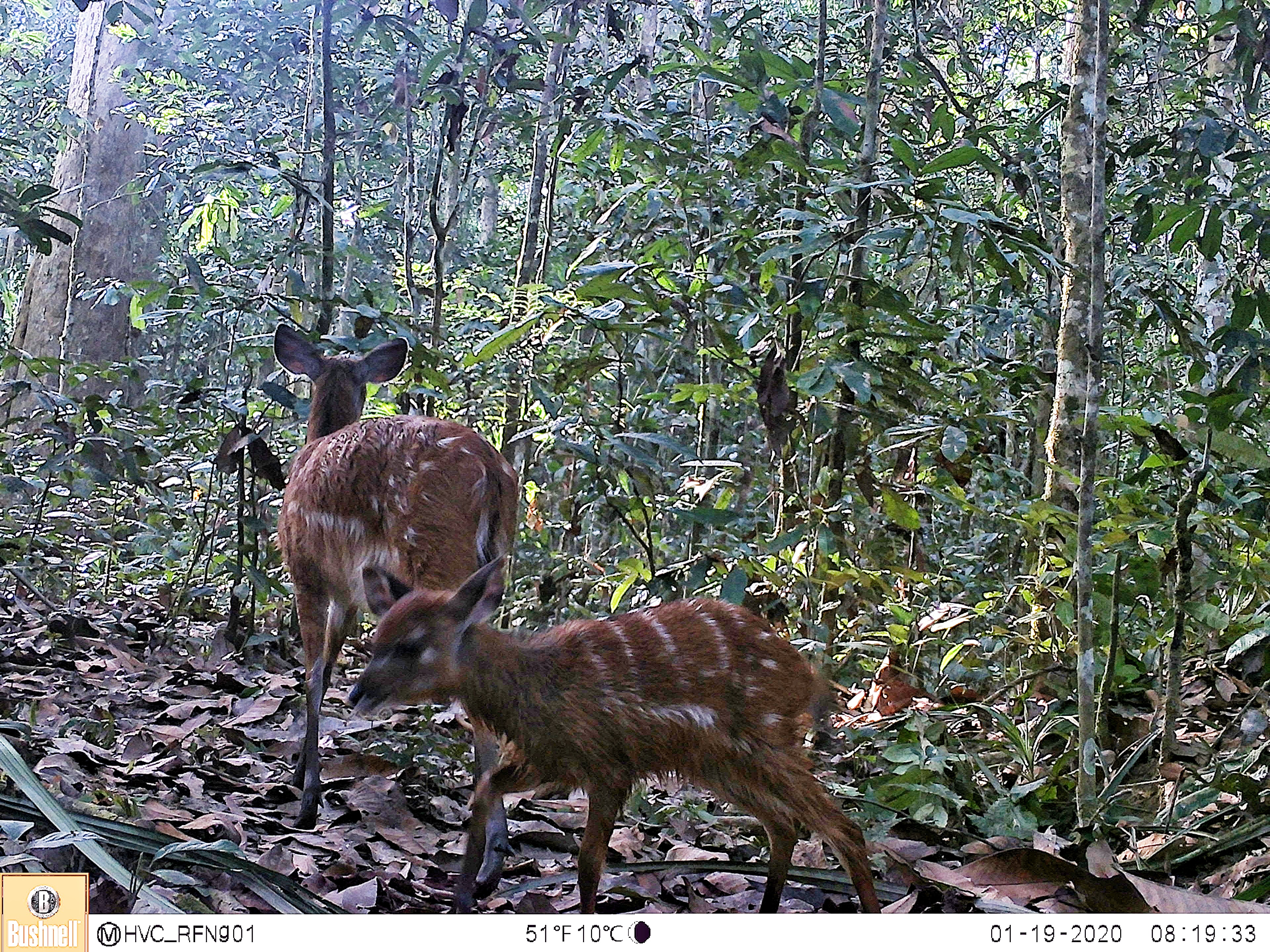 Two sitatunga antelope photo-captured in the Ngoyla Fauna Reserve. Original photo by Jean Paul Belinga, post processing by Gabor Csata.